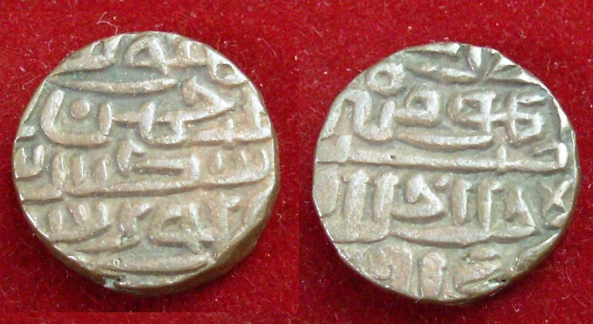 image from personal collection